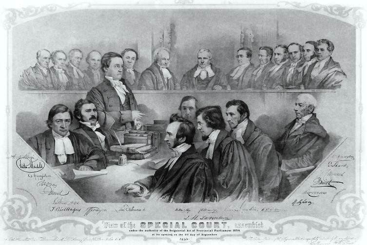 "View of the Special Court, assembled under the authority of the Seigniorial Act of Provincial Parliament 1854 at its opening on the 4th day of September 1855." Arranged and drawn on stone by William Lockwood. Print of A. Weingartner's Lithography (New York). Published by W.W. Smith (Saint-Jean, Lower Canada). Print, Ink on paper - Lithography. (identifying the back row of judges, l. to r.) c.l. (trimmed): [A.] N Morin / Charles Mondelet. / G. Vanfelson. / J.S.C. / Chs D Day / J Duval / Edw Bowen D.C.L.; l.c.: L.H. LaFontaine; c.r.: T C. Aylwin / Ed. Caron / J. Smith / W.C Meredith. / E Short / W Badgley; (identifying counsel and clerk, l. to r., but omitting E. Barnard at extreme right) b.: F Réal Angers T.J J Loranger Lewis T Drummond R. MacKay J U Beaudry Christopher Dunkin. C.S. Cherrier. [1] Key to pictured persons, from Canada and Its Provinces, vol. II, Adam Shortt and Arthur G. Doughty, general editors, Toronto, 1914, opp. p. 590 (via [2]: Judges (left to right): A. N. Morin, Superior Court. Charles Mondelet, Superior Court. George Vanfelson, Superior Court. Charles D. Day, Superior Court. John Francis Duval, Court of Queen’s Bench. Edward Bowen, C.J., Superior Court. Sir Louis H. La Fontaine, C.J., Court of Queen’s Bench. Thomas Cushing Aylwin, Court of Queen’s Bench. R. Edouard Caron, Court of Queen’s Bench. James Smith, Superior Court. W. C. Meredith, Superior Court. Edward Short, Superior Court. W. Badgley, Superior Court. Crown Counsel (left): F. Réal Angers. T. J. J. Loranger. Lewis T. Drummond, Attorney-General (standing). Counsel for the Seigneurs (left to right): R. McKay. Christopher Dunkin. C. S. Cherrier. Clerk of Court—J. U. Beaudry (End of Table). Messenger of the Court (Extreme Right).